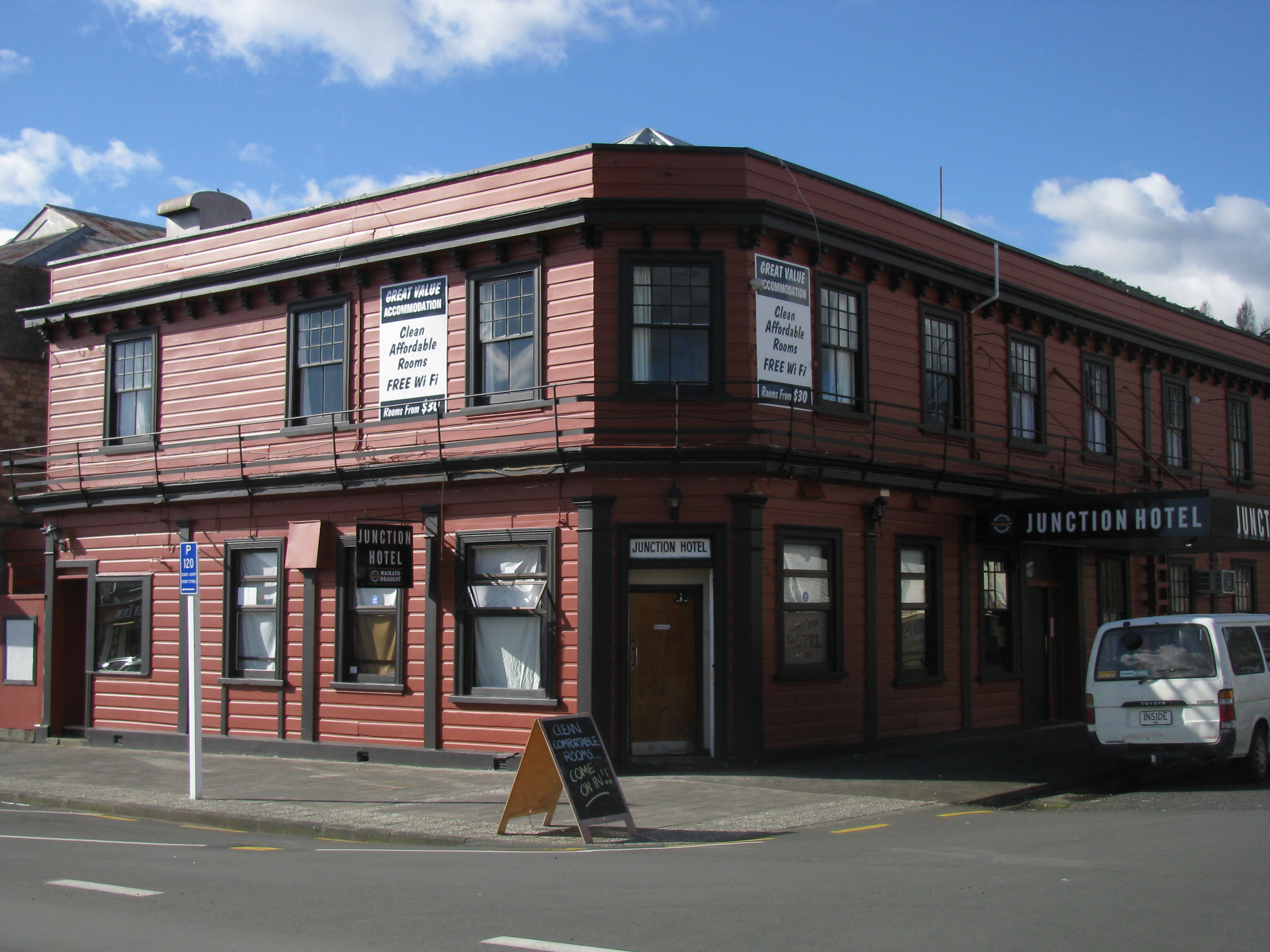 The newly renovated Junction Hotel was originally established in 1869 from native Kauri and Rimu. The Junction Hotel is the only hotel, restaurant and pub still acting as one over a century later.